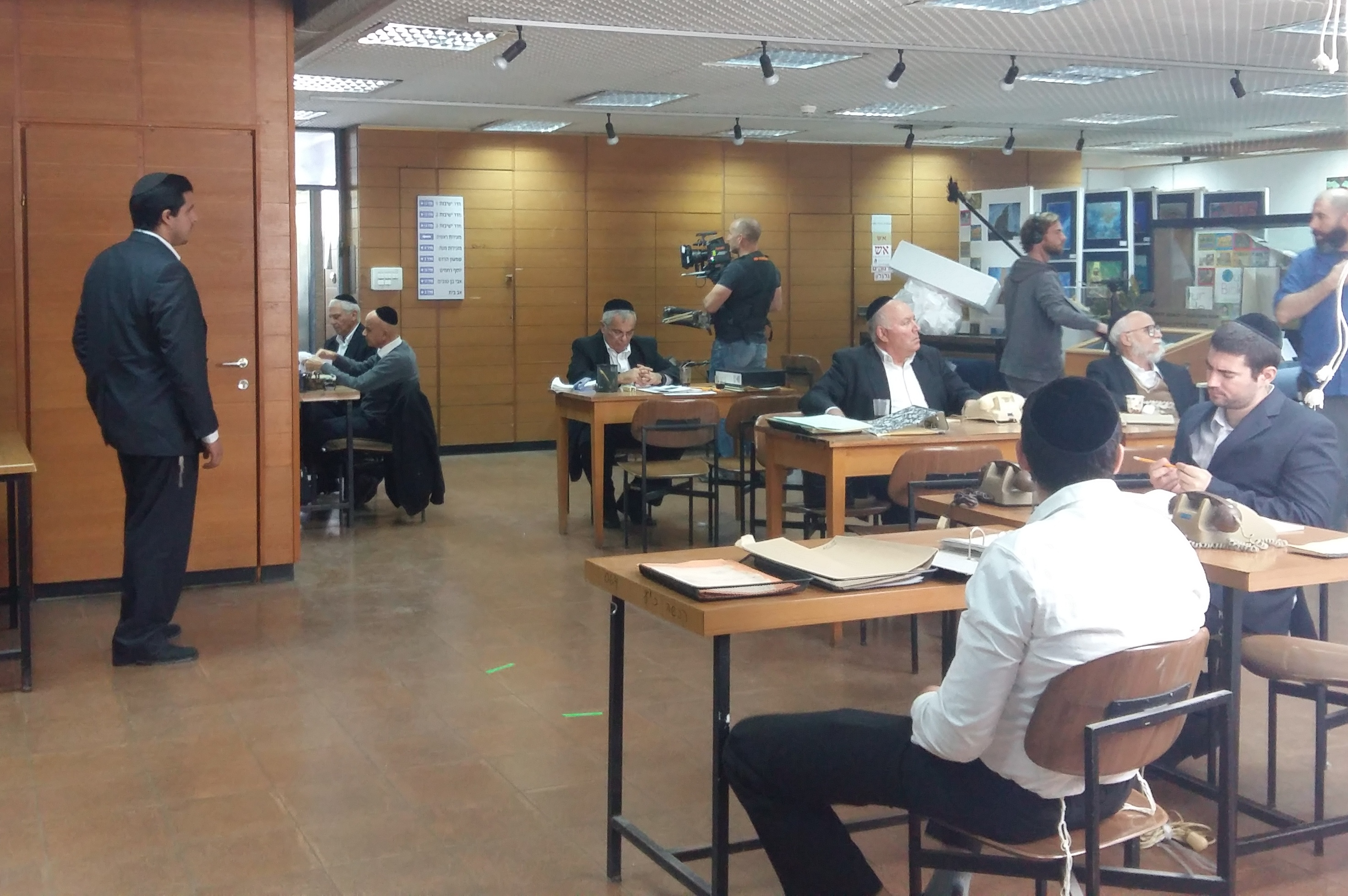 Election headquarters scene from the filming of "The Unorthodox" in the Central Library of Bar-Ilan University.